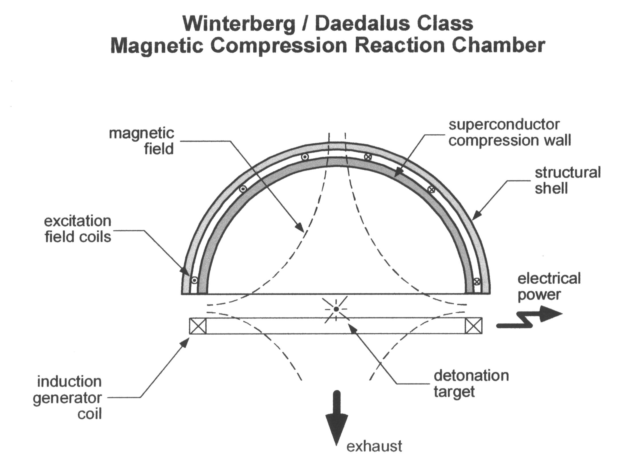 Winterber/Daedalus Class Magnetic Compression Reaction Chamber, see Friedwardt Winterberg